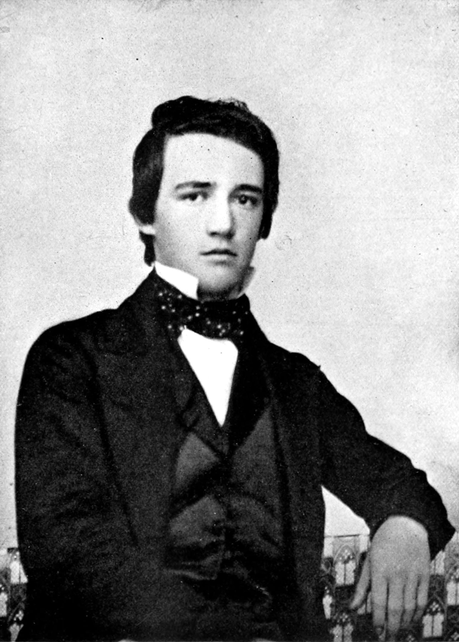 HORACE WHITE. Caption: From a photograph made in 1854, and loaned by Mr. White, now a resident of New York City. Published in Sparks, E. Erle., Doherty, M. Gertrude., Terry, S. B. (Schuyler Baldwin)., Douglas, S. Arnold. (1908). The Lincoln-Douglas debates of 1858. Springfield, Ill.: The Trustees of the Illinois state historical library, 1908.